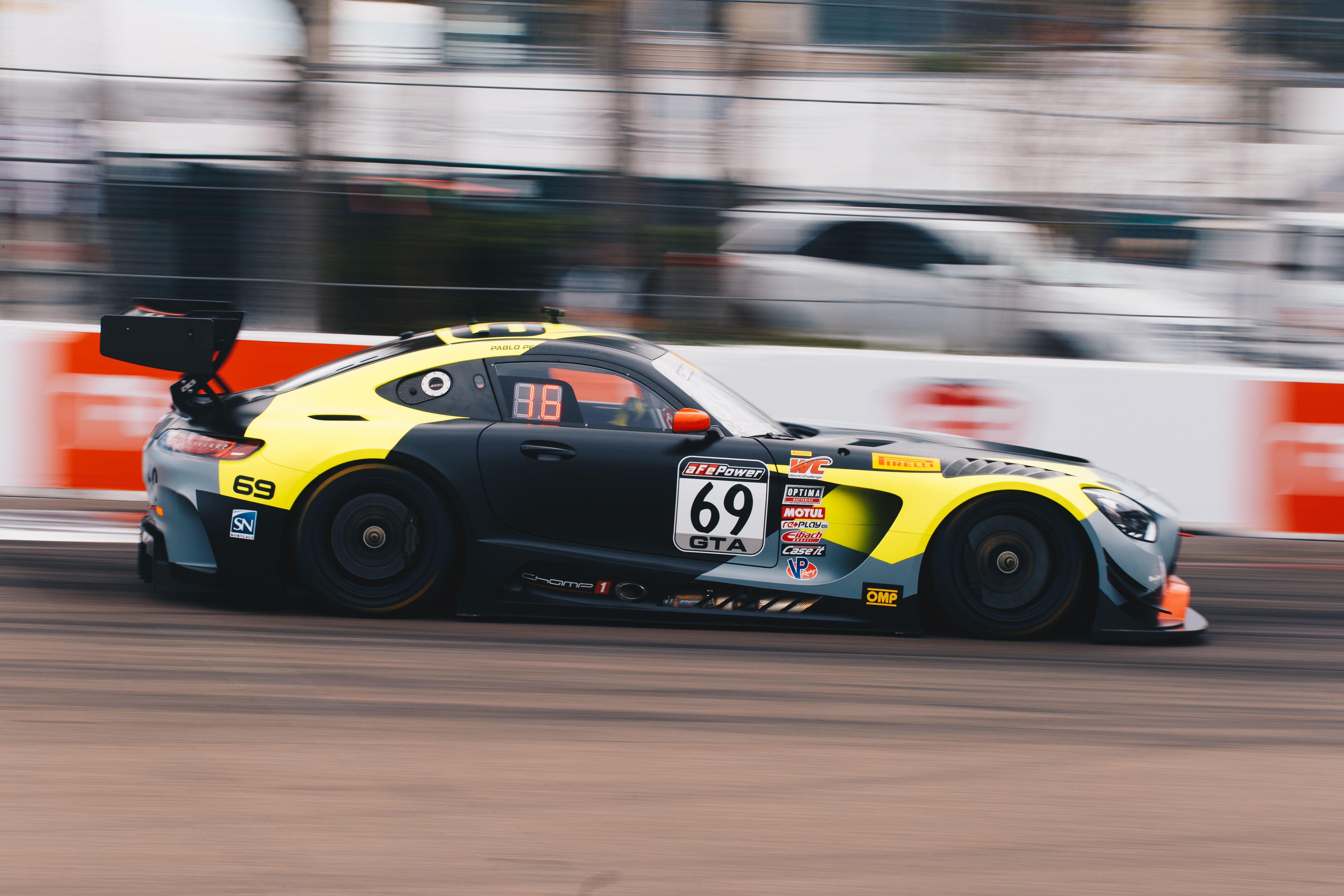 Pablo Perez Company piloting the Champ 1 Motorsports AMG GT3 at round 1 of the Pirelli World Challenge